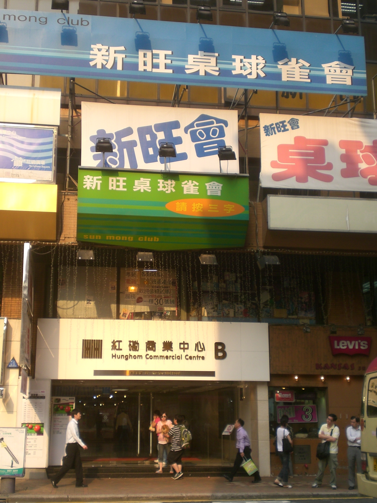 馬頭圍道 紅磡商業中心 桌球會